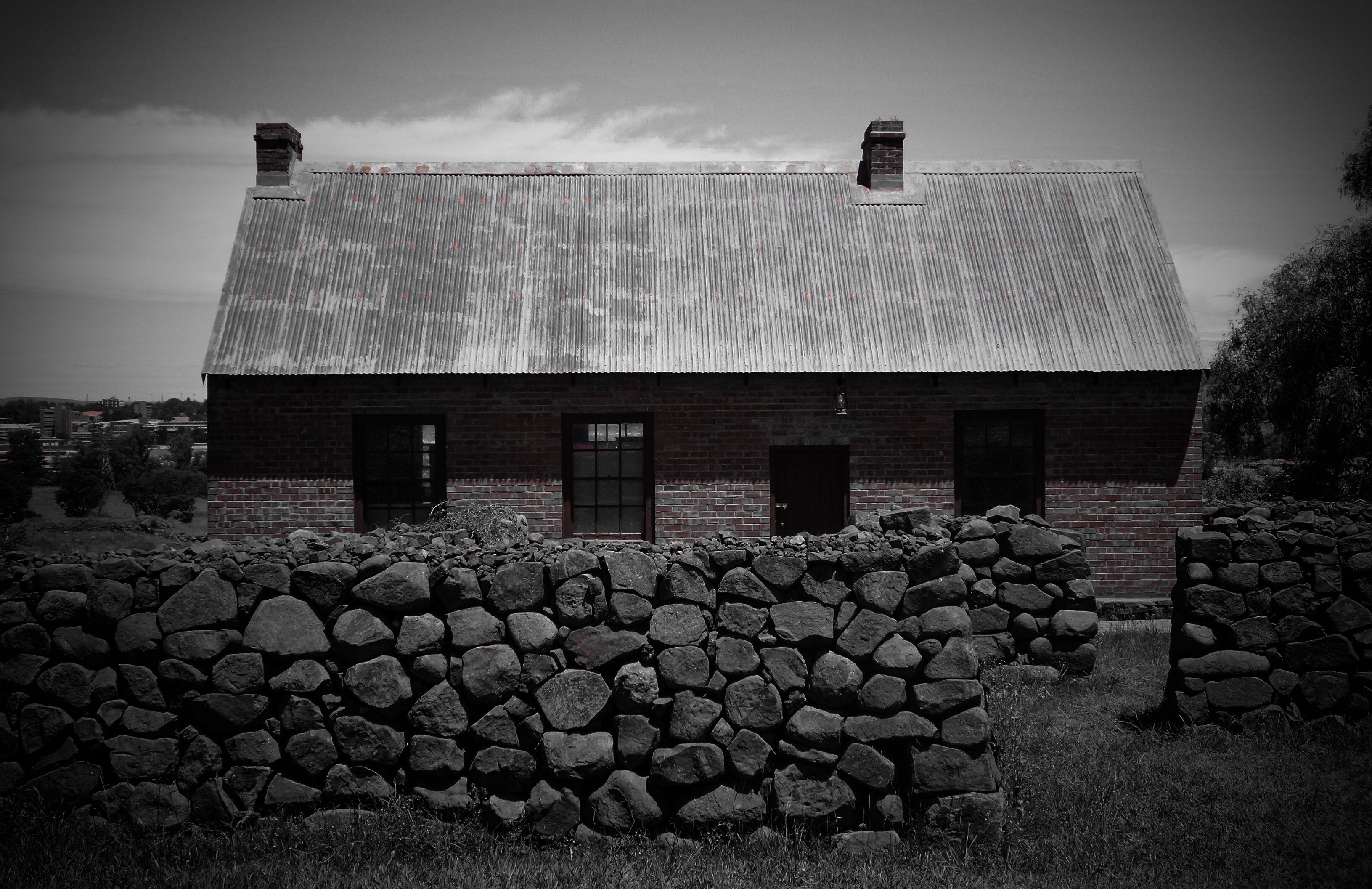 This media shows a South African Protected Site with SAHRA file reference 9/2/429/0019.